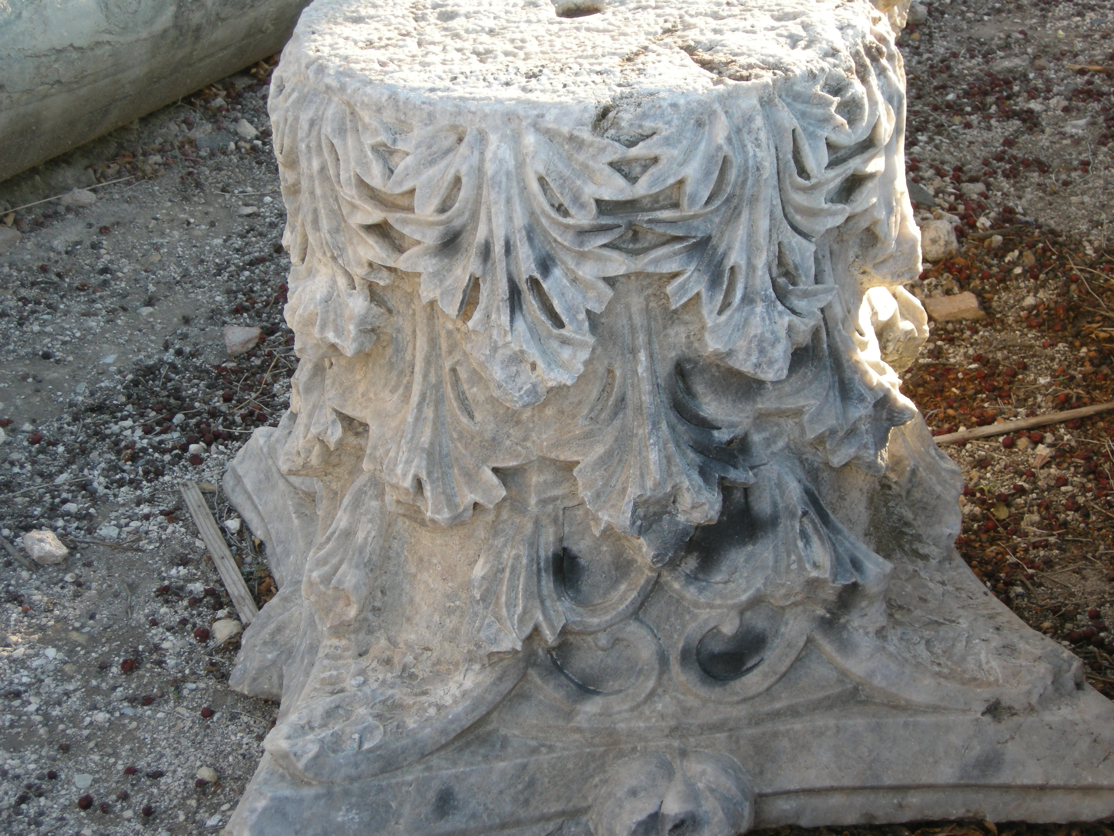 Hippos